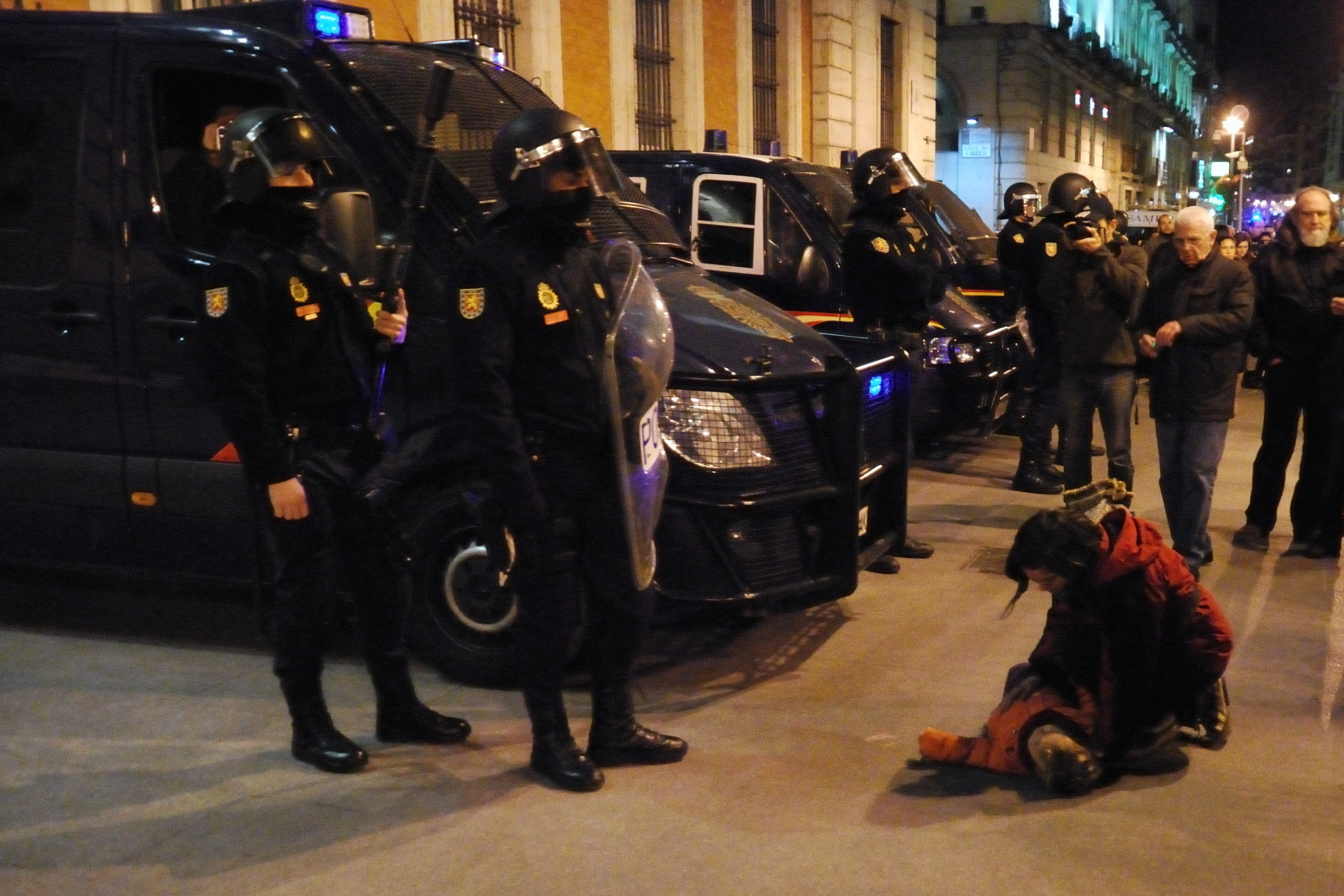 Police against protesters in "Primavera Valenciana".